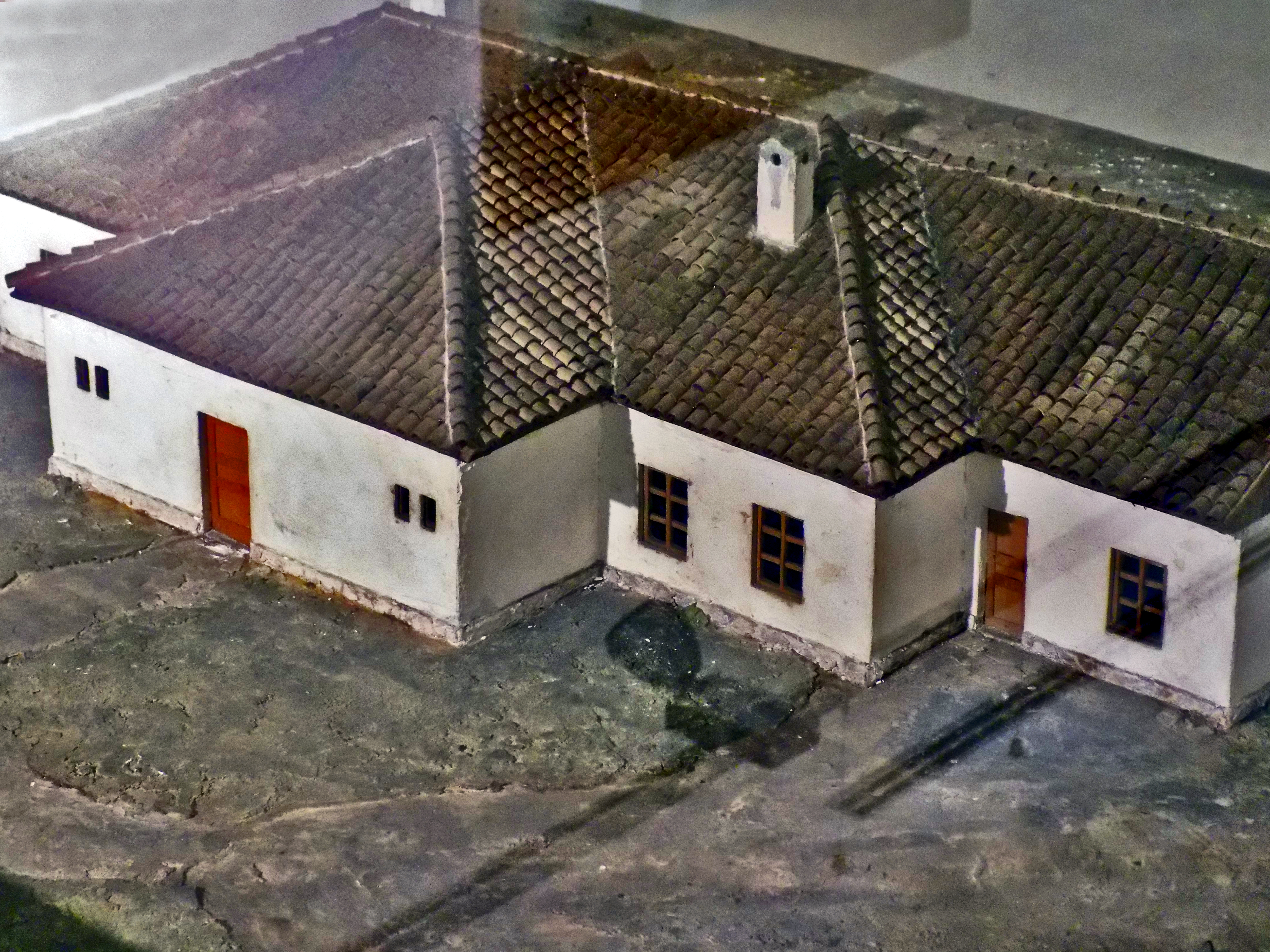 A model of Menzulana (postal station) in Brza Palanka (Serbia), built in 1837 - Postal Museum in Belgrade